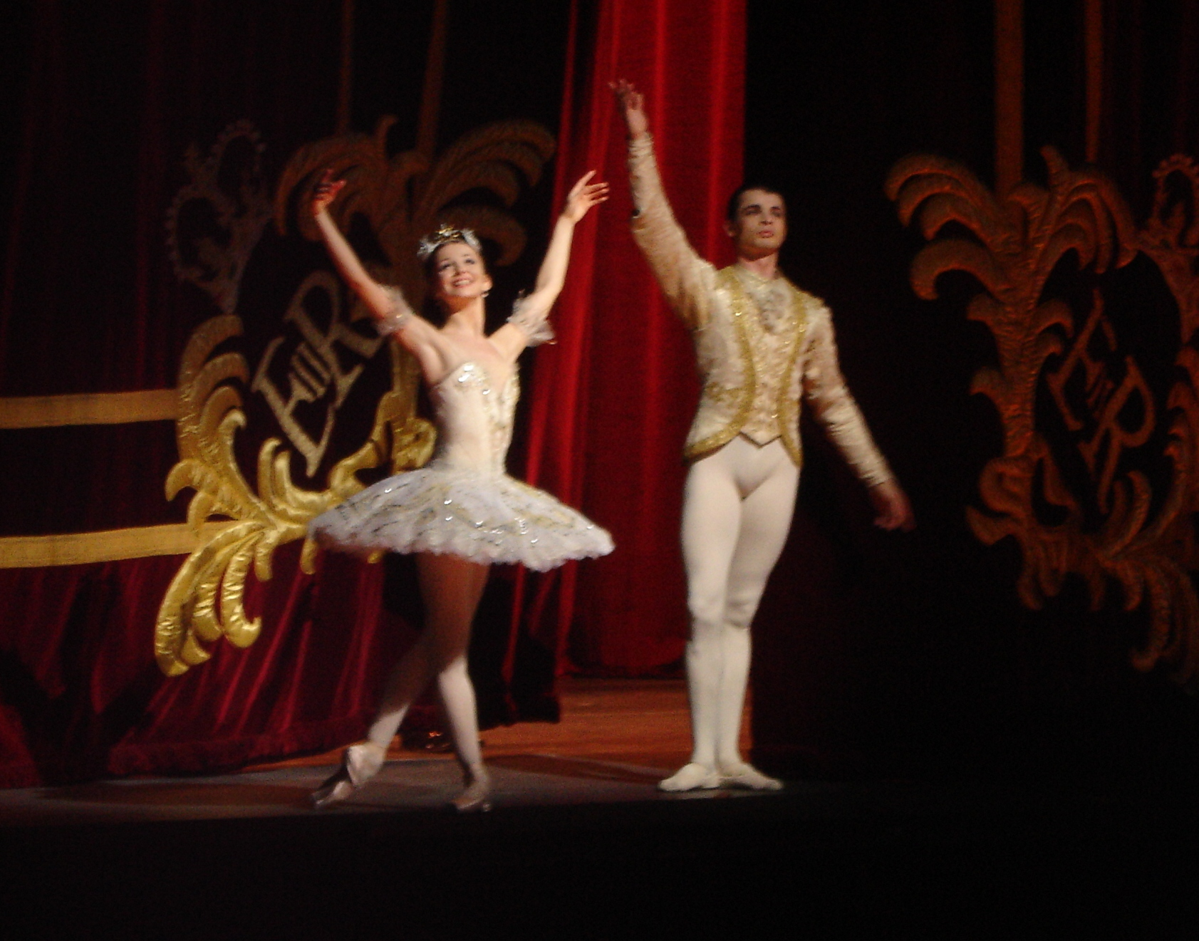 Evgenia Obraztsova and David Makhateli at Covent Garden, after dancing 'The Sleeping Beauty' on 14th November, 2009.